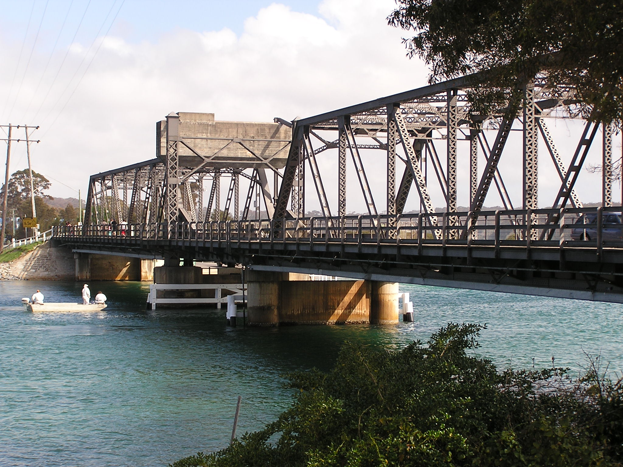 Bridge on Princes Highway at Narooma, New South Wales Picture by AYArktos